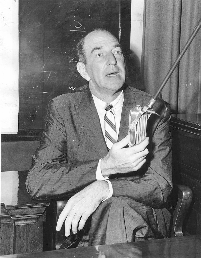 Howard Rushmore testifying at the 1957 Robert Harrison trial in Los Angeles